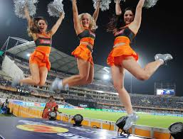 IPL 6 Cheering Sunrisers Hyderabad